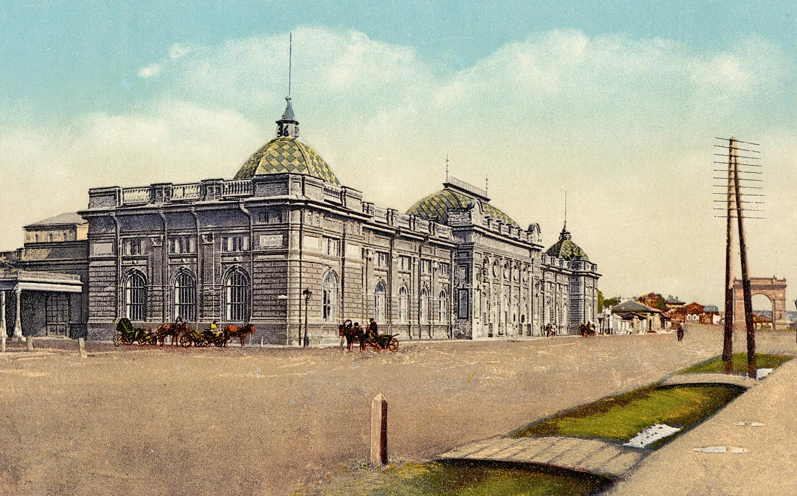 The club in Irkutsk, Russia in the early 1900s